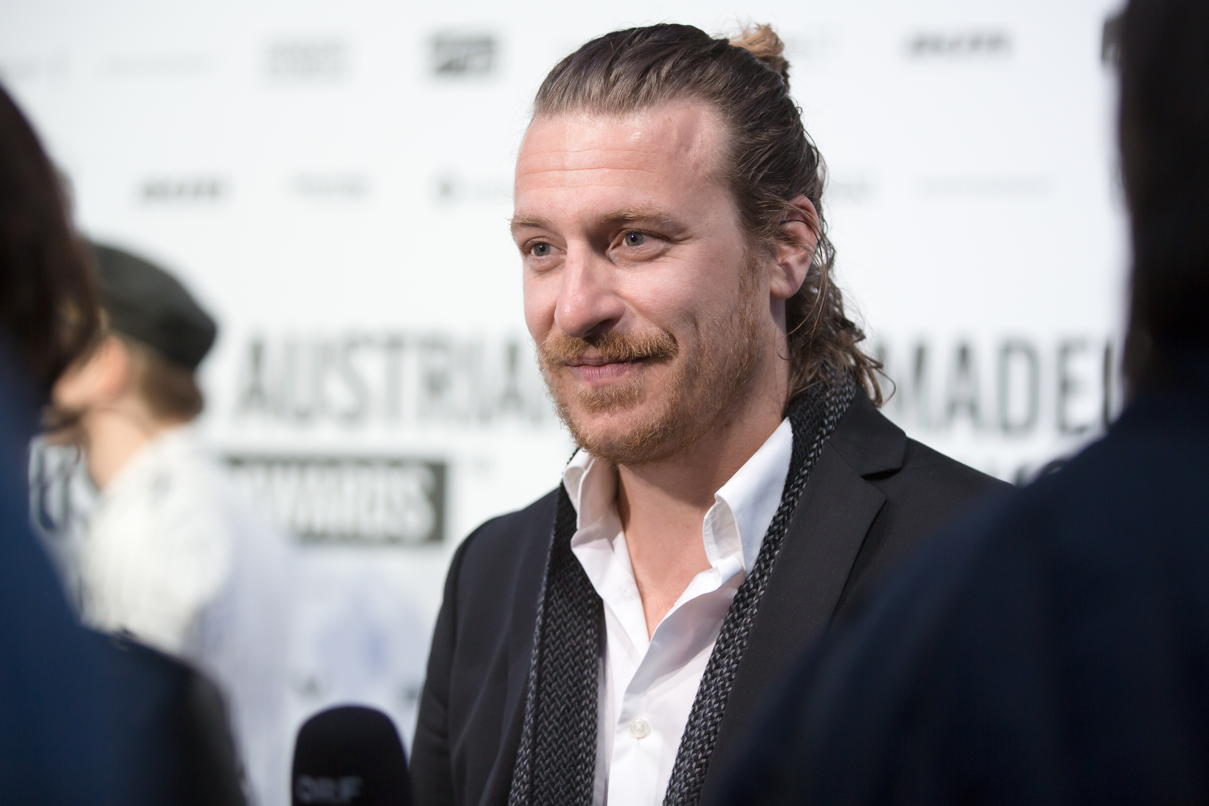 Parov Stelar at the Amadeus Austrian Music Award 2015 at Volkstheater in Vienna